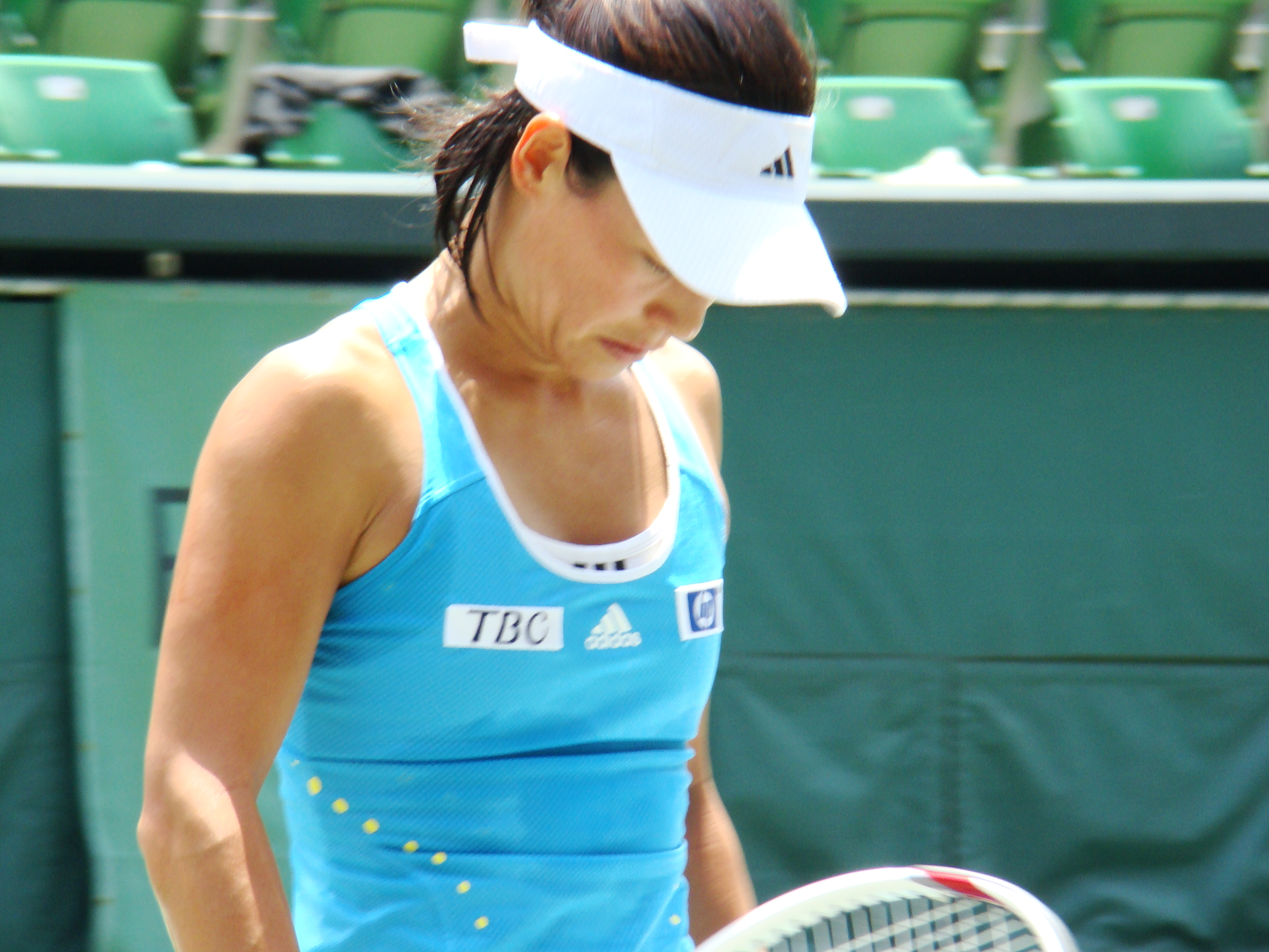 A tennis player from Japan, 伊達公子（Kimiko Date.）